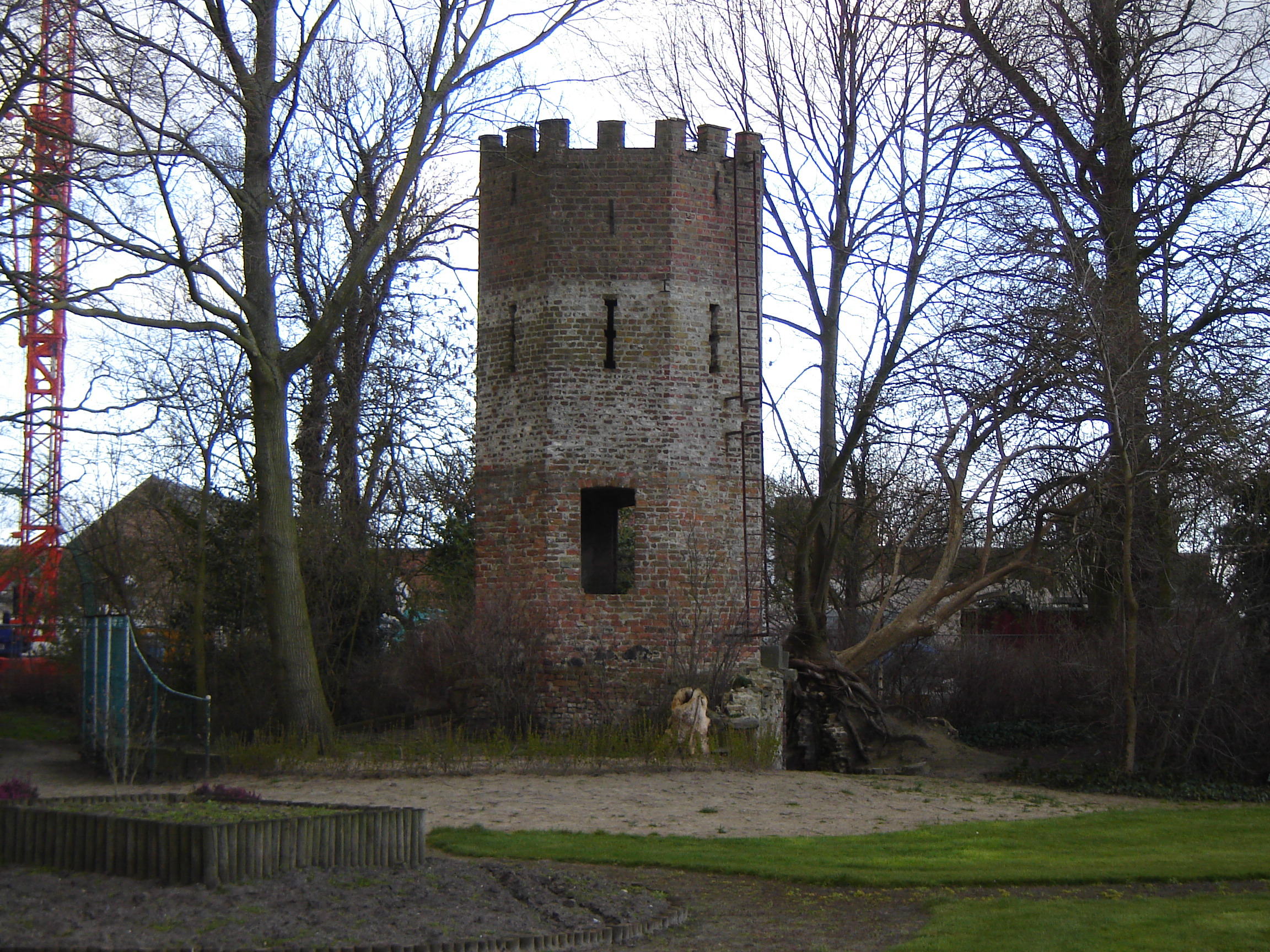 Part of the garden of the old abbot house of the ancient Saint Peter abbey in Oudenburg, West Flanders, Belgium